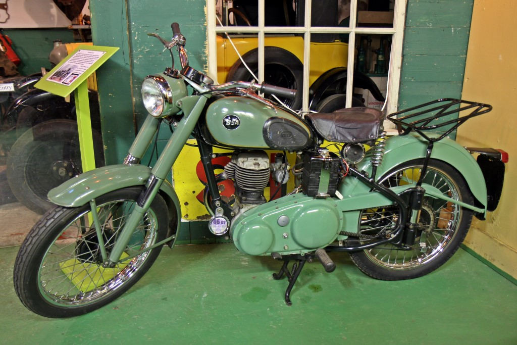 1956 BSA C10L motorbike, Wirral Transport Museum, Birkenhead